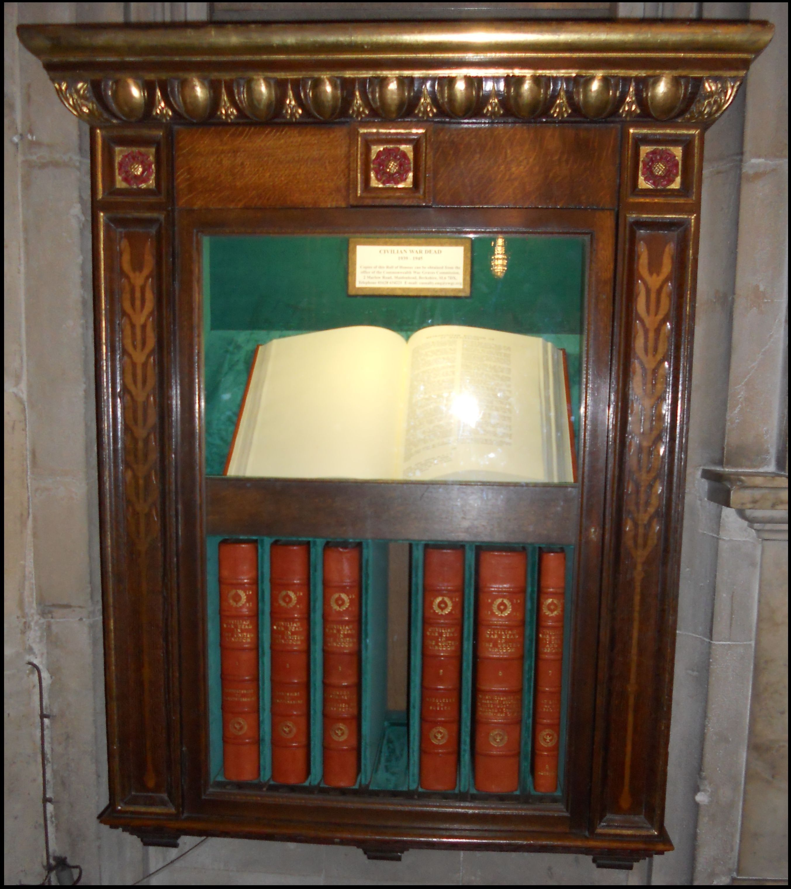 Roll of Honour for the civilian dead of the Second World War, compiled by the Imperial War Graves Commission (now Commonwealth War Graves Commission) and displayed here in Westminster Abbey next to St George's Chapel, by the West Door.